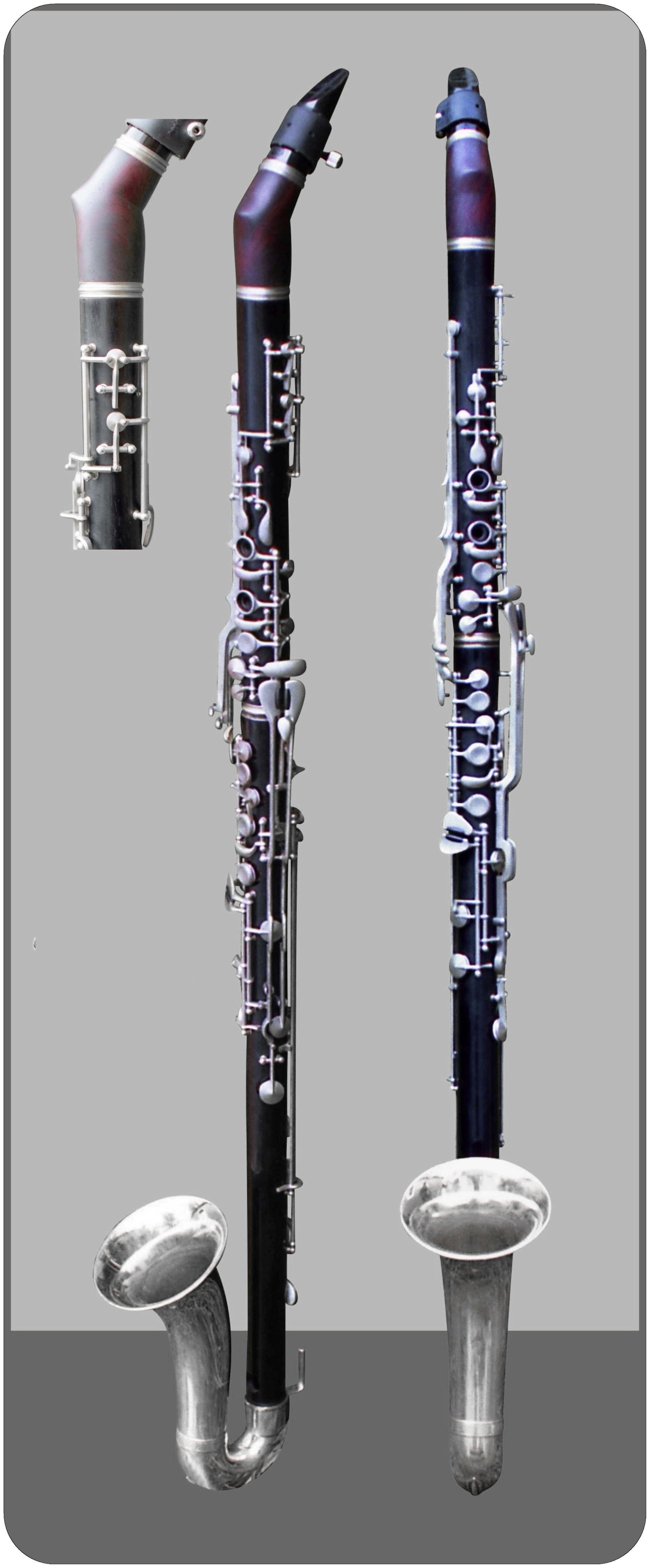 modern basset horn in two views